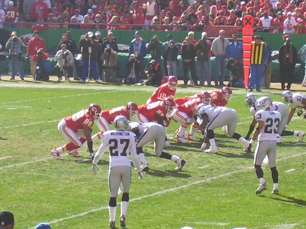 Chiefs vs. Raiders at Arrowhead Stadium, Kansas City, MO. Taken on 11 November 2006.